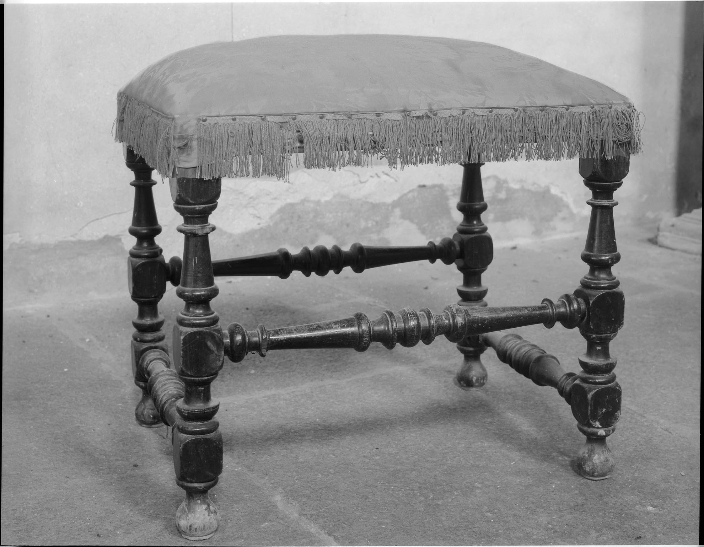 Upholstered stool, 18th century.